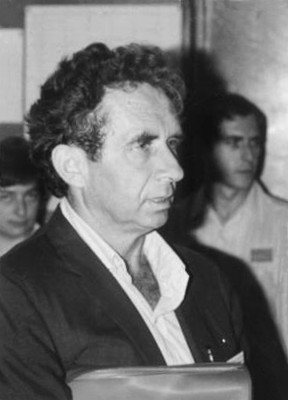 Mathematician Shmuel Agmon in Nizza, 1970.